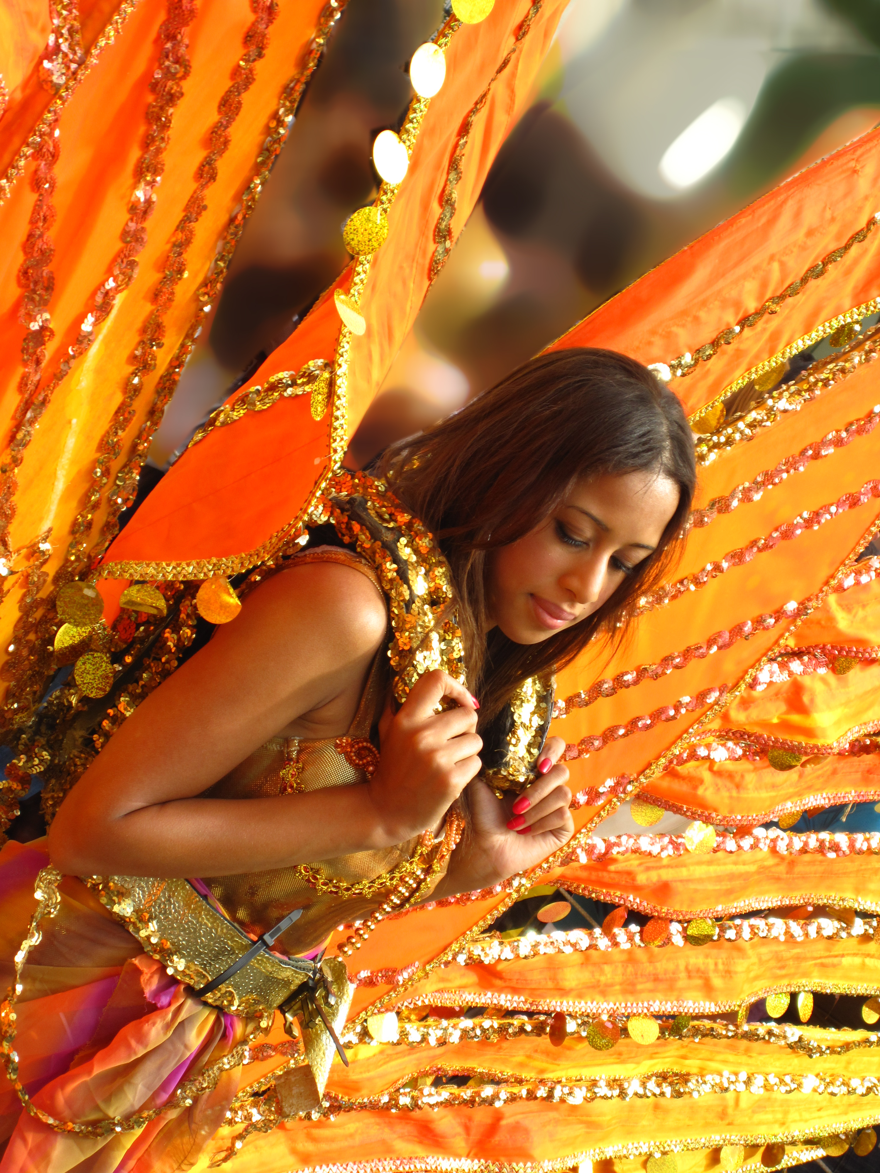 Notting Hill Carnival - Young girl parading on Westbourne Grove in 2009